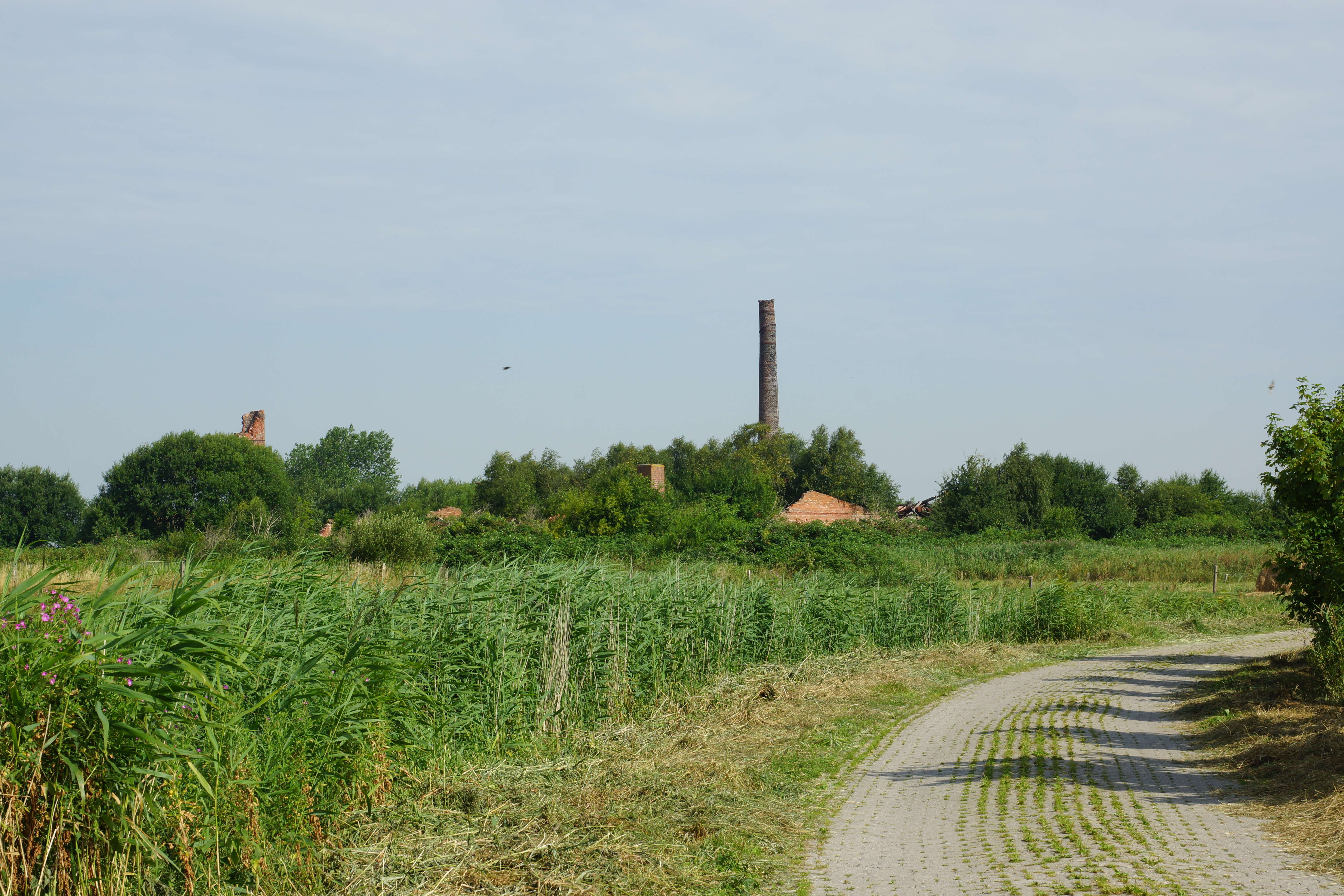 Krummhörn (Pilsum), Germany: Former brick factory